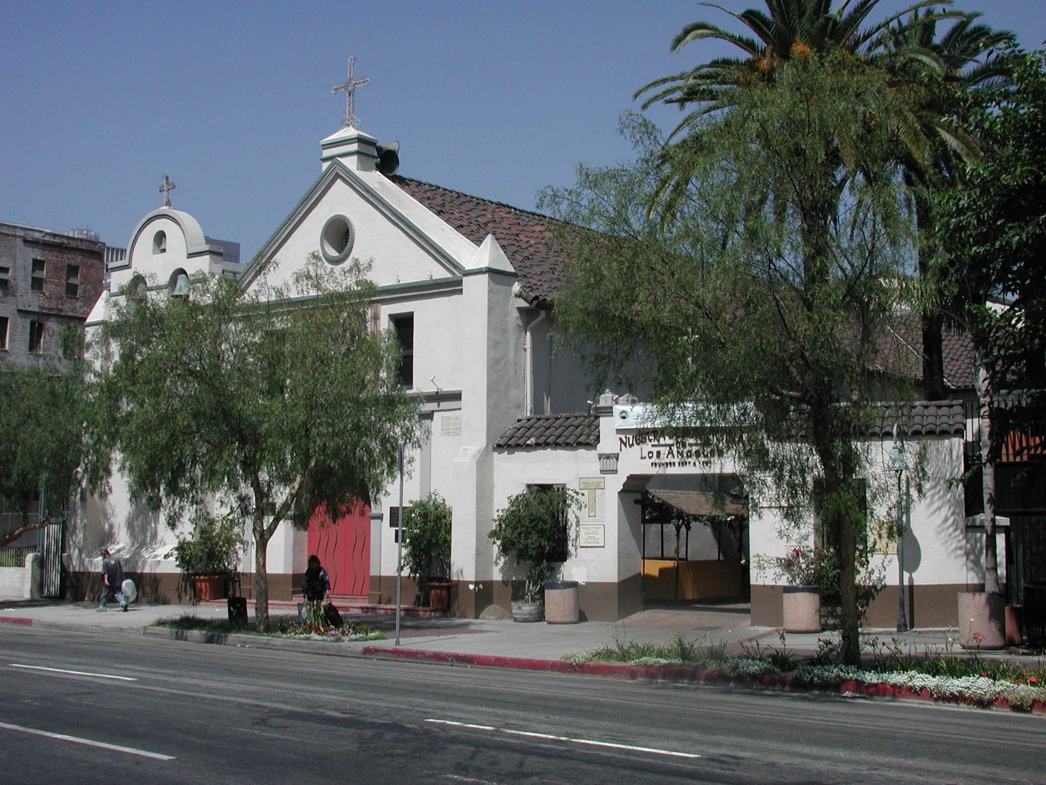 Photograph of La Placita Church (La Iglesia Nuestra Señora Reina de los Angeles) by Matthew D. Herrera on 07/20/2007